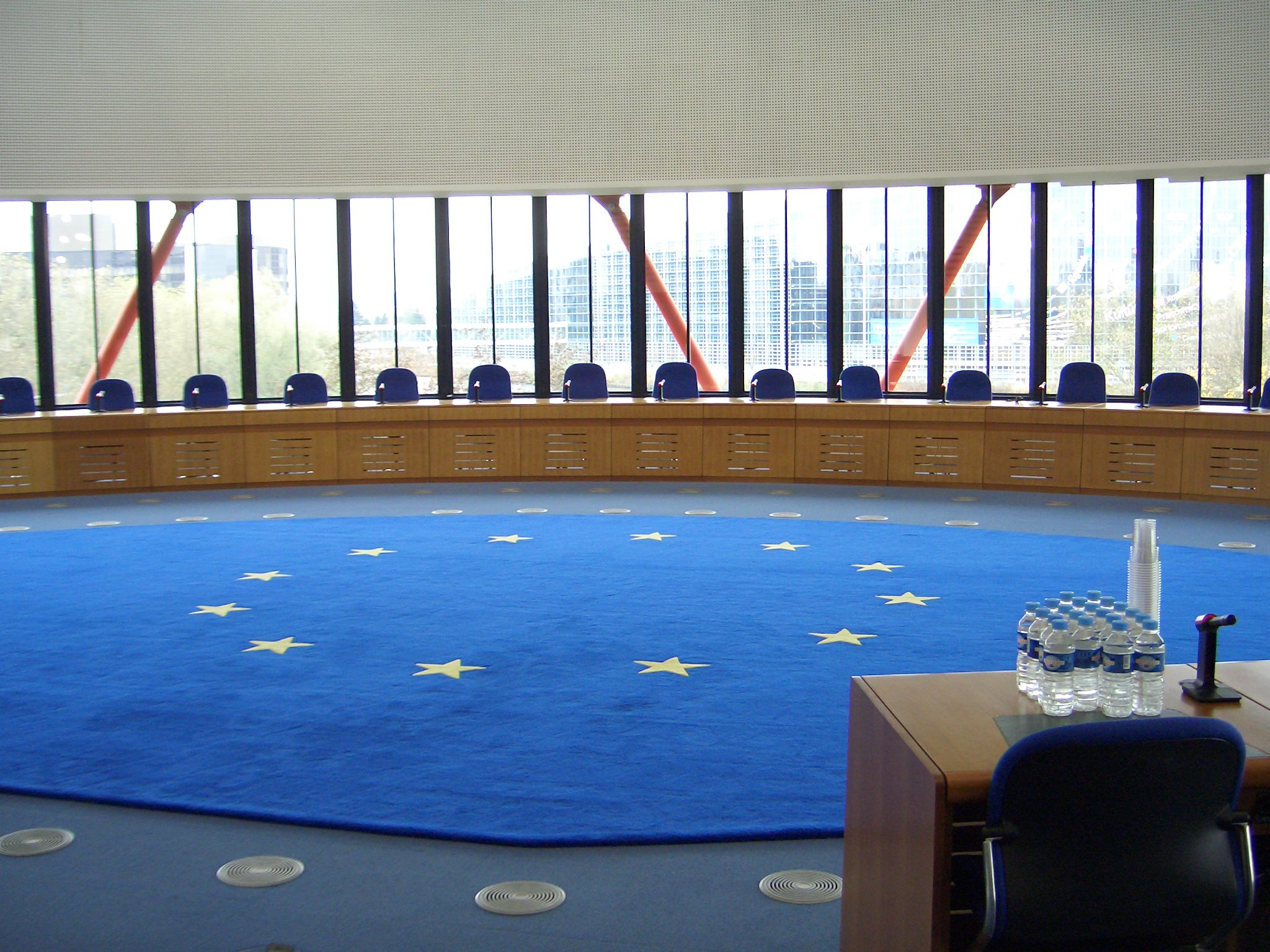 Court room of the European Court of Human Rights (ECHR)